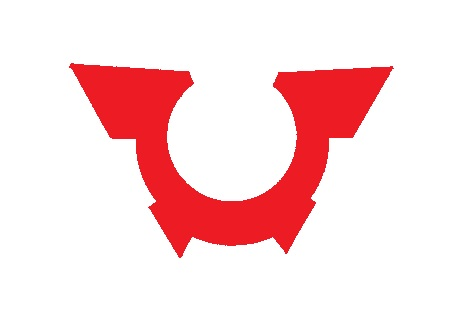 Flag of Higashichichibu Saitama